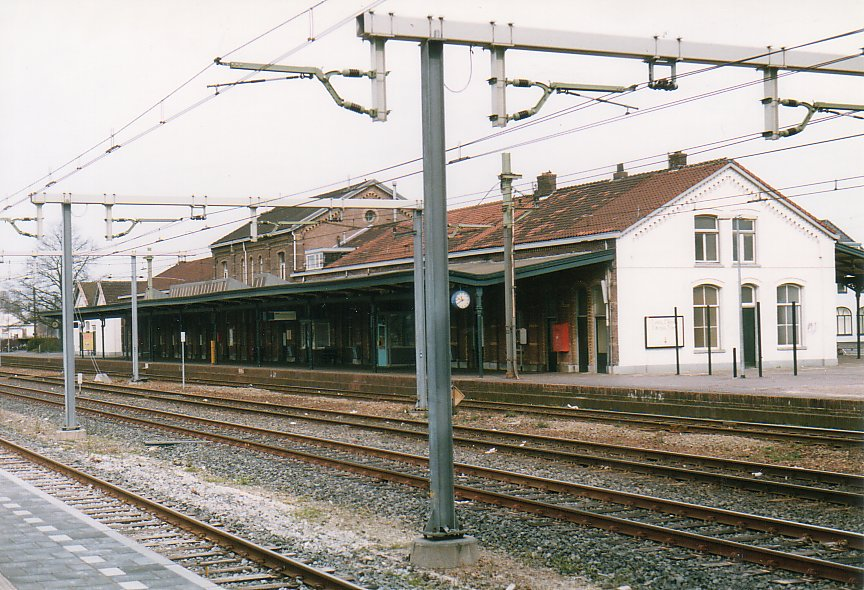 The railwaystation of Boxtel in 1998